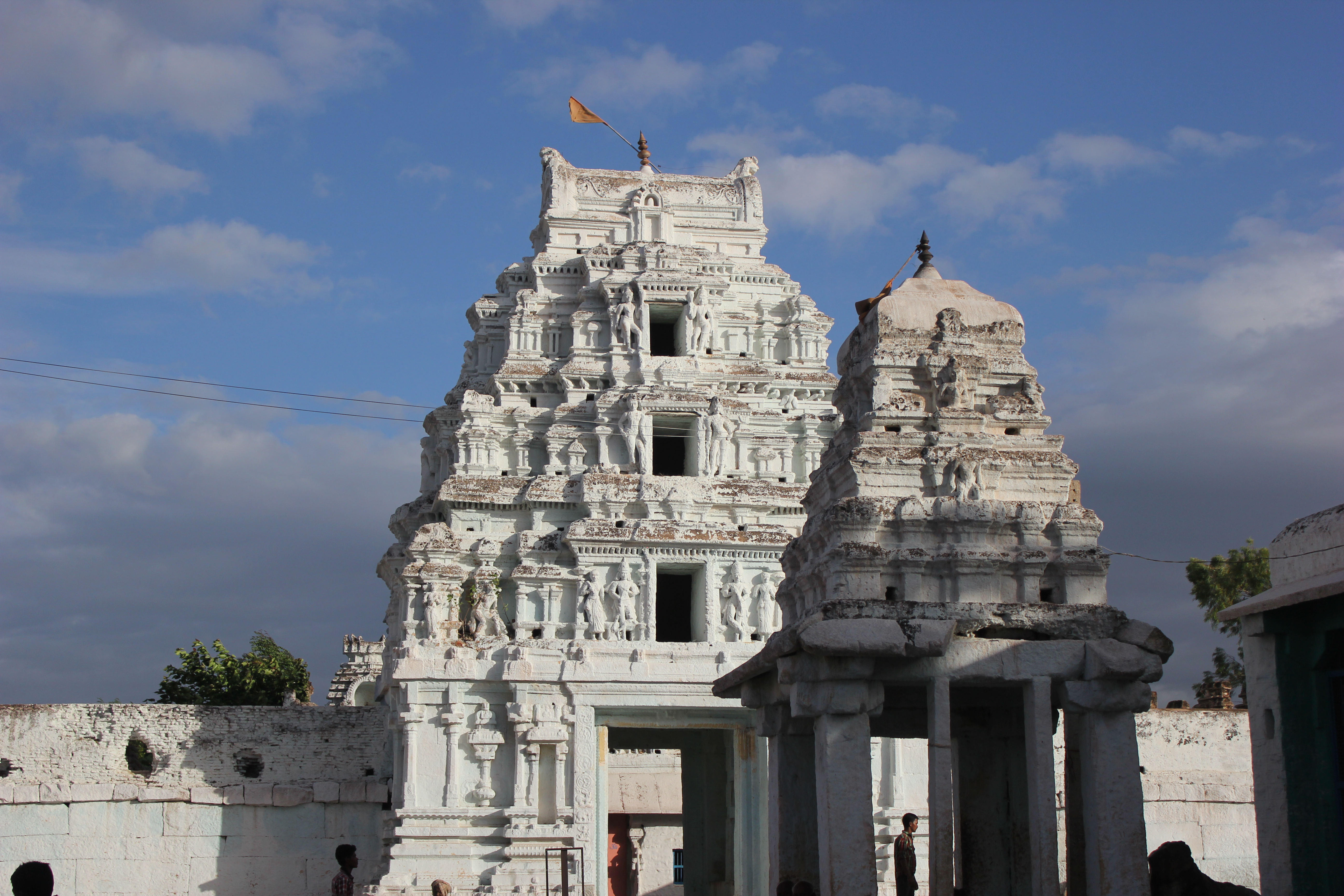 This photograph was taken by me at the Mallikarjuna temple in Hospet, Bellary district, Karnataka state, India. The temple was constructed during the rule of King Deva Raya I (1406-1422 AD) of the Vijayanagara Empire